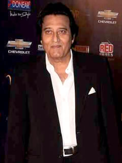 Vinod Khanna at 7th Chevrolet Apsara Film and Television Producers Guild Awards